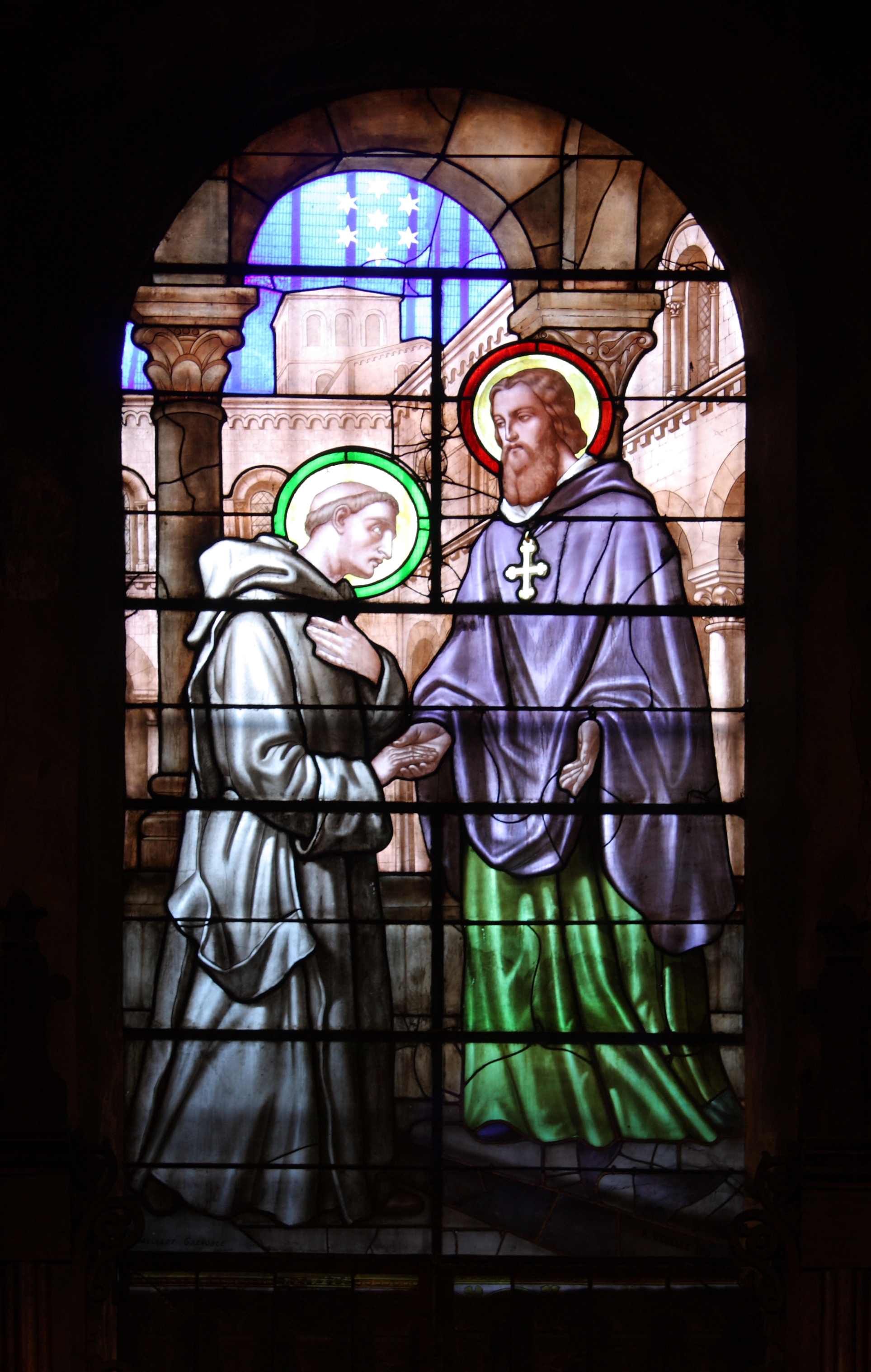 Saint Hugh, bishop of Grenoble, receiving Bruno, founder of the Carthusian order. The seven stars represent Saint Hugh's dream, telling him where to guide Bruno and his six companions in order to found the Grande Chartreuse monastery.